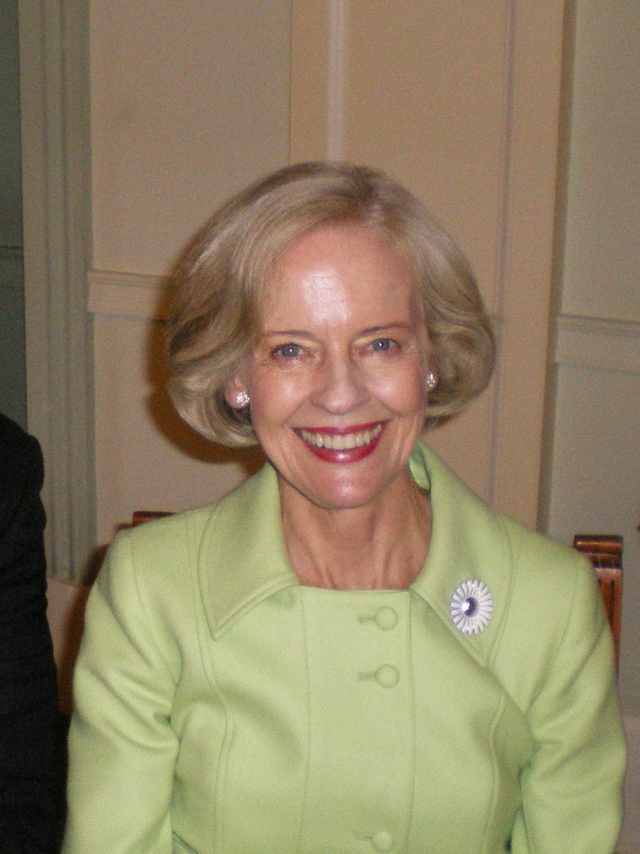 Quentin Bryce, Governor-General of Australia